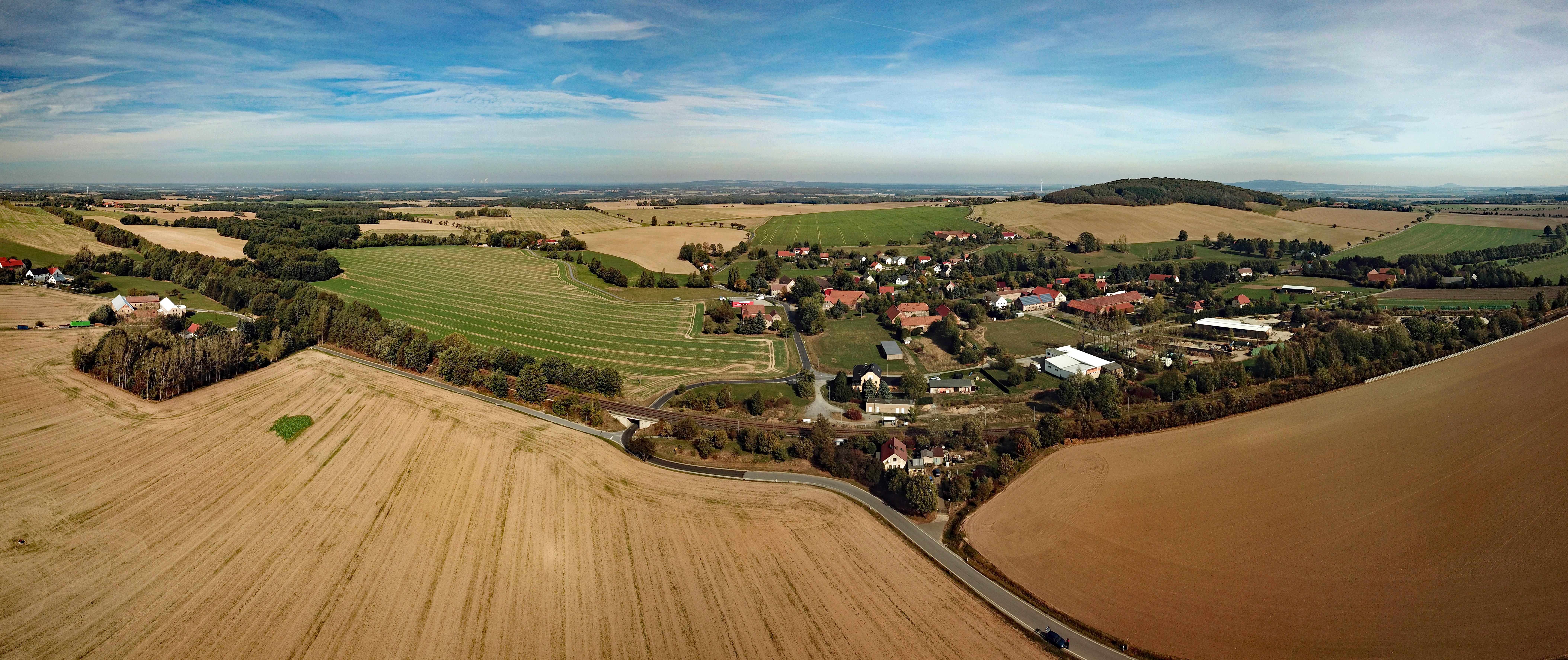 Breitendorf (Hochkirch, Saxony, Germany) Hornjoserbsce: Powětrowy wobraz Wujezda pola Bukec